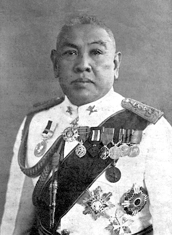 Phraya Phahol, Prime Minister and Army general of Thailand